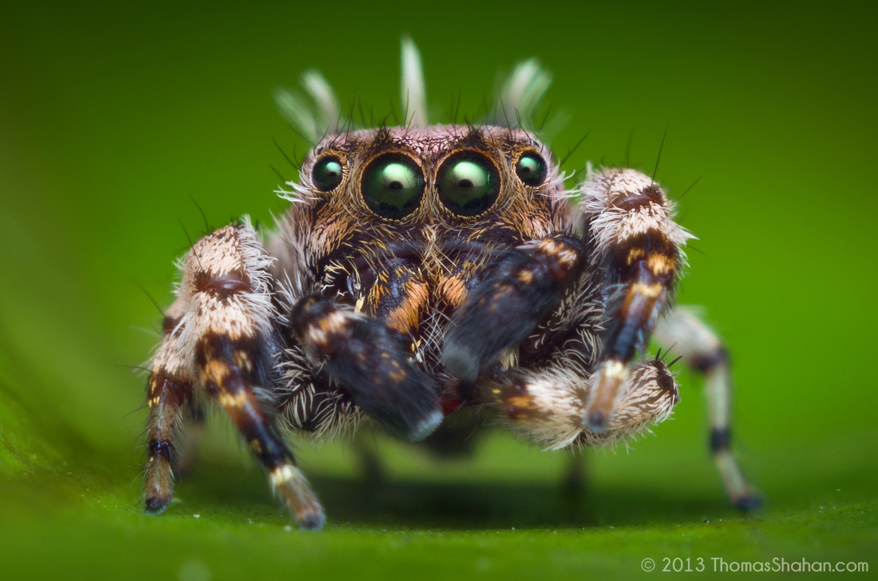 An adult male Beata jumping spider in Belize